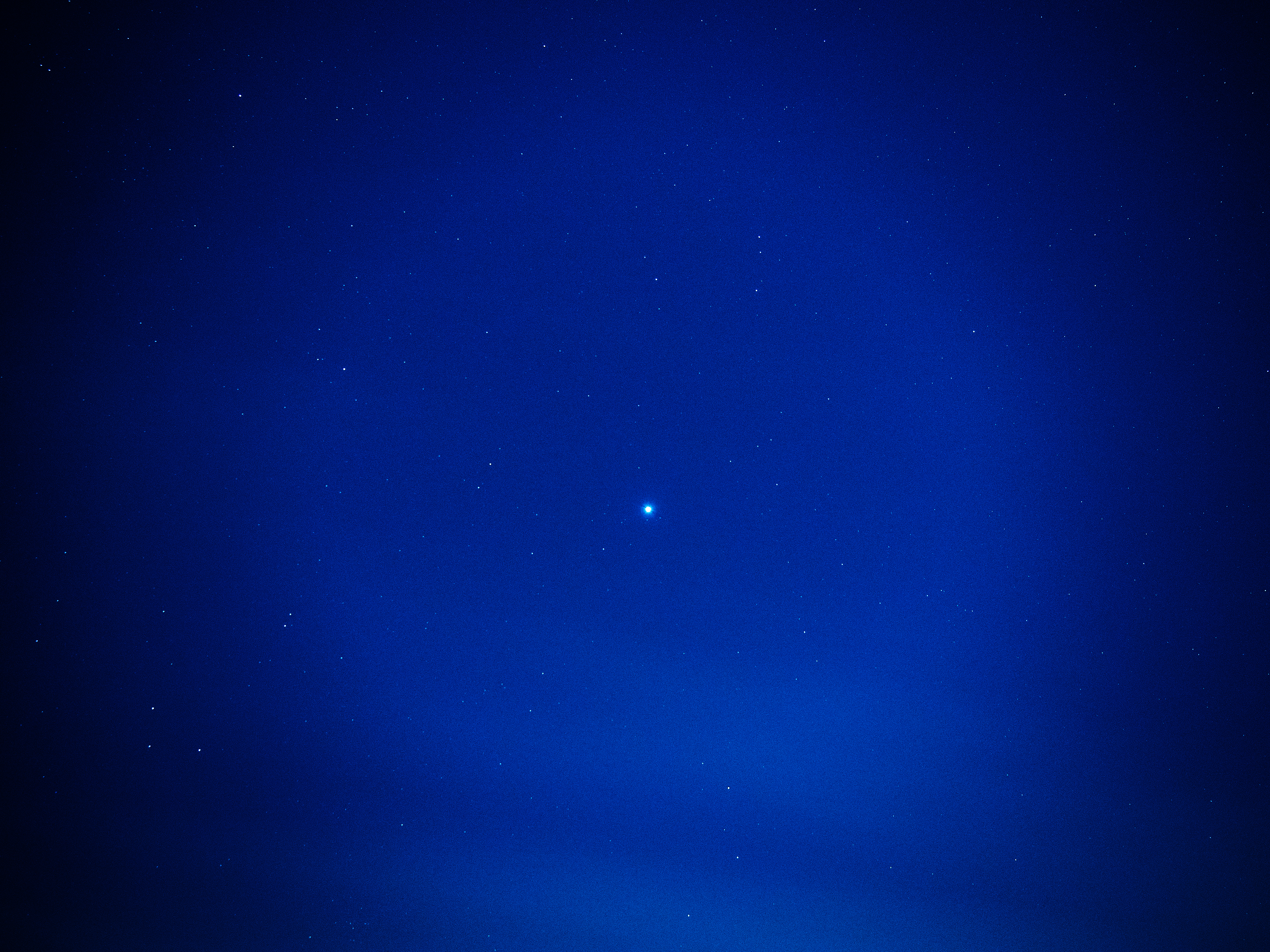 Star Sirius, with OM-D E-M5